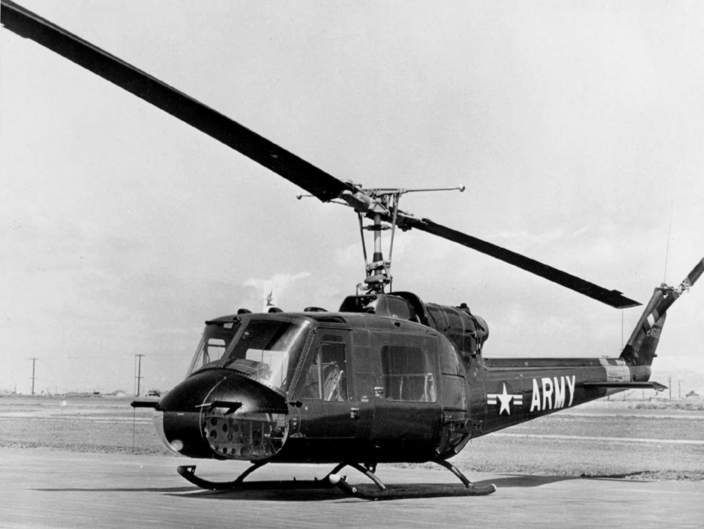 A U.S. Army Bell UH-1B-BF Iroquois (s/n 62-4602) parked on an airfield.